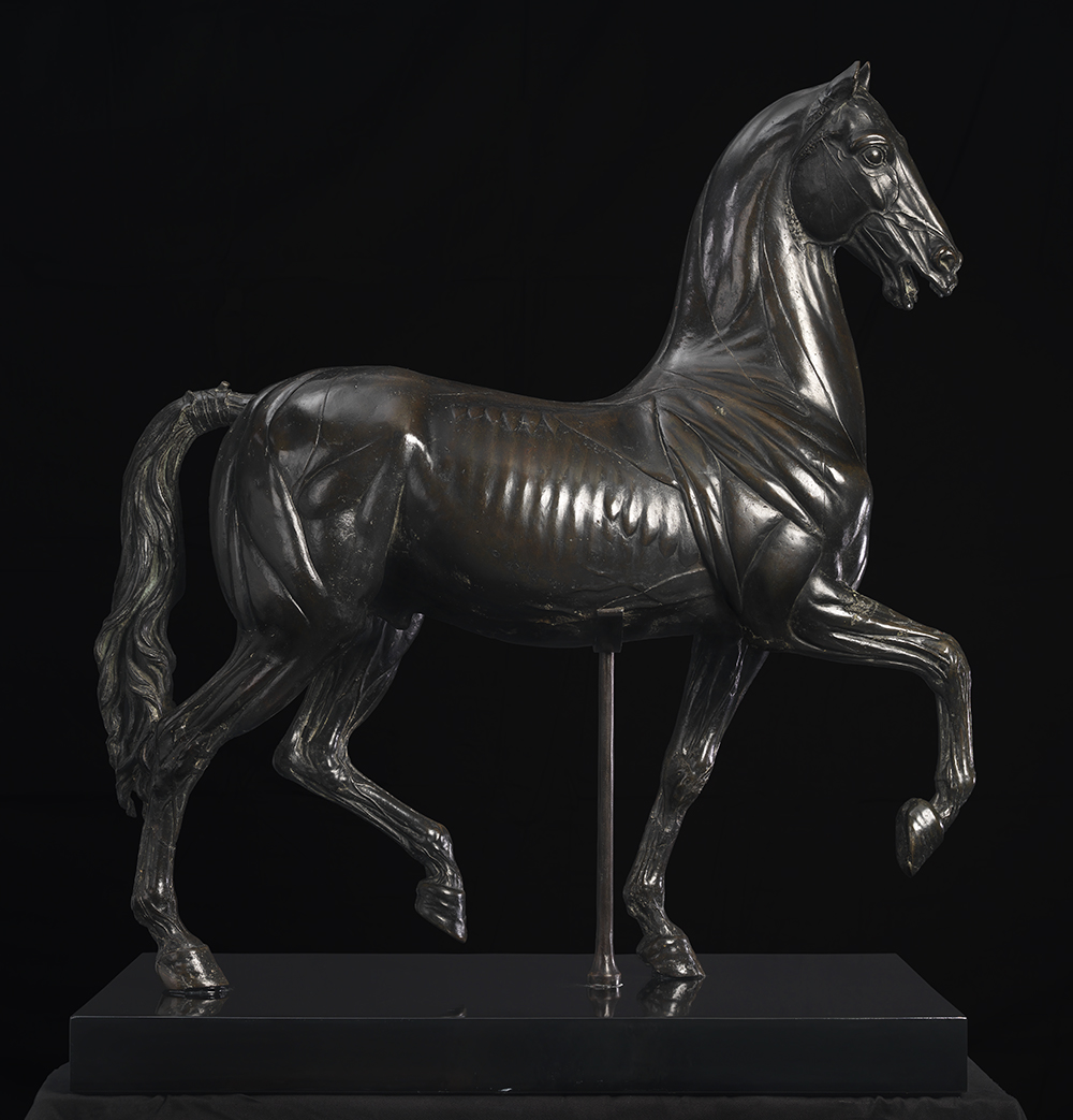 Anatomical Figure of a Horse (ecorché), circle of Giambologna, 1585 This image is available from the University of Edinburgh Image Collections This item is part of University of Edinburgh Image Collections, art~1~1~11574~101039View the image in Wikimedia's IIIF-compliant Mirador viewer which enables high resolution zooming.View the image in its original context in the University of Edinburgh Image Collections Catalogue This file was uploaded as part of a GLAMWiki partnership with the University of Edinburgh. This tag does not indicate the copyright status of the attached work. A normal copyright tag is still required. See Commons:Licensing.